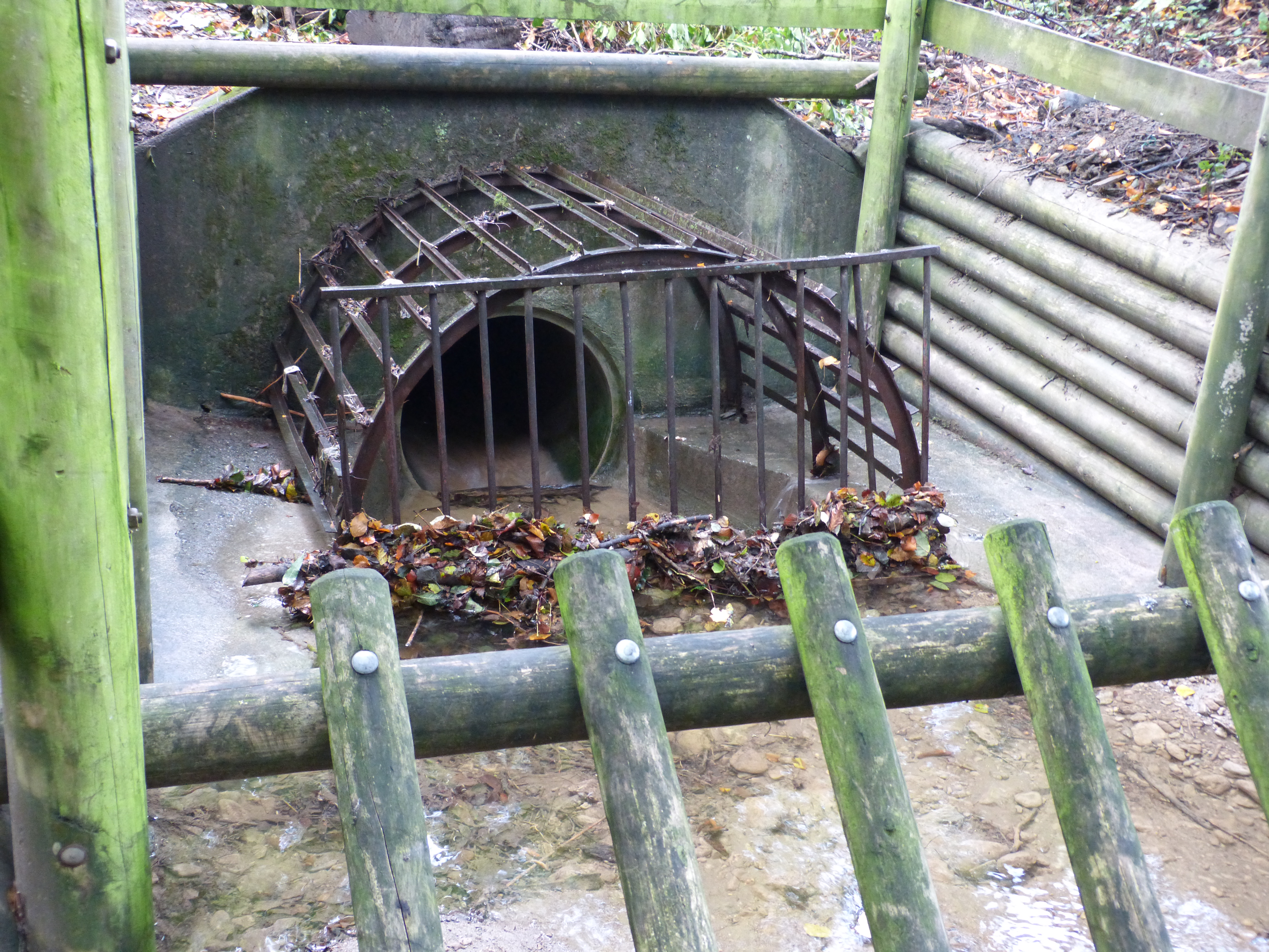 Input of the underground channel and ending of the air route of the stream of Broye.